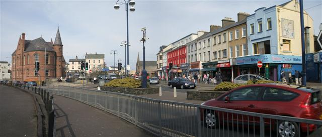 Portrush, County Antrim This is the first close-up view of the resort as you approach the town from the railway station.